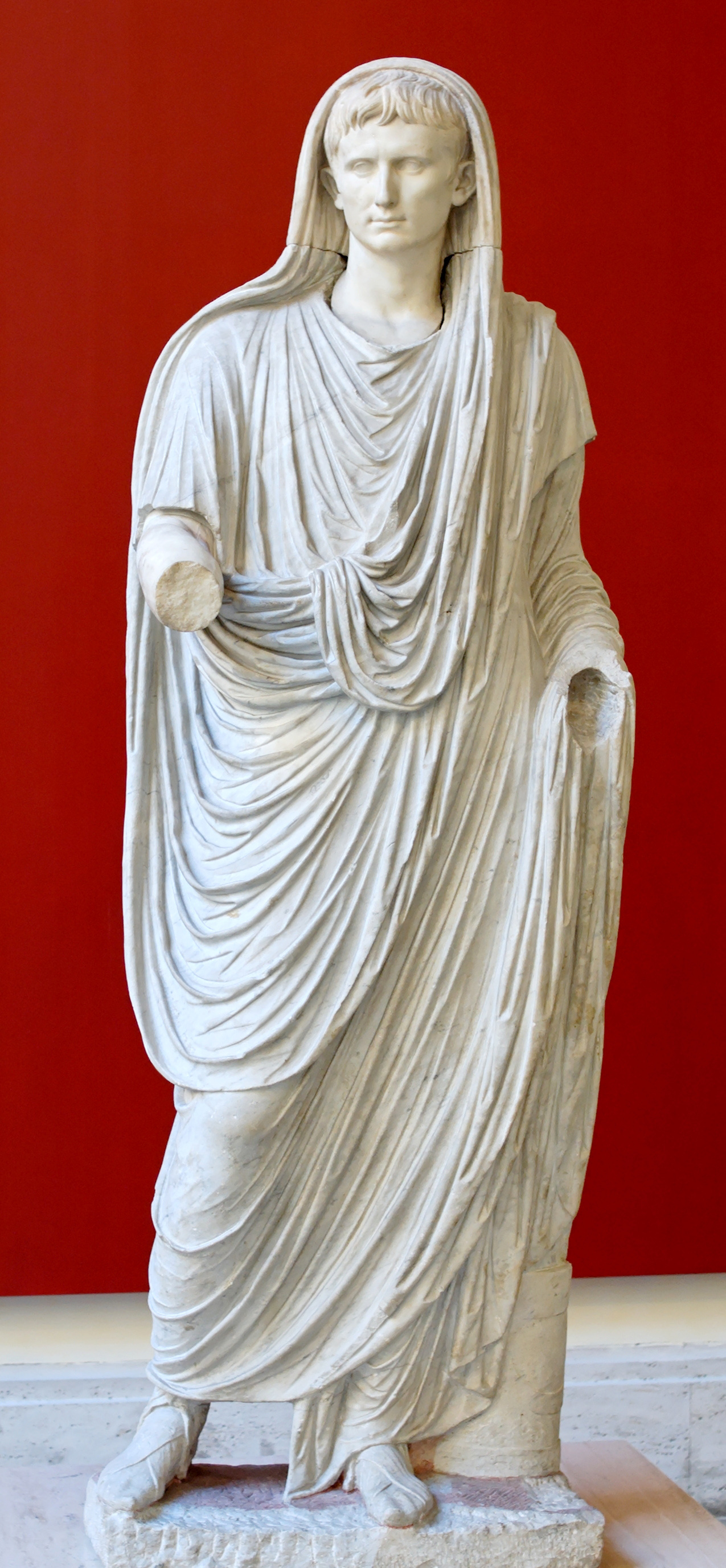 Augustus as Pontifex Maximus: head covered, wearing the toga and calcei patricii (shoes reserved for Patricians), he extends his right arm to pour a libation; a cupsa (container for officiel documents) lies at his feet. Greek marble (arms and head) and Italic marble (body), Roman artwork of the late Augustan period.